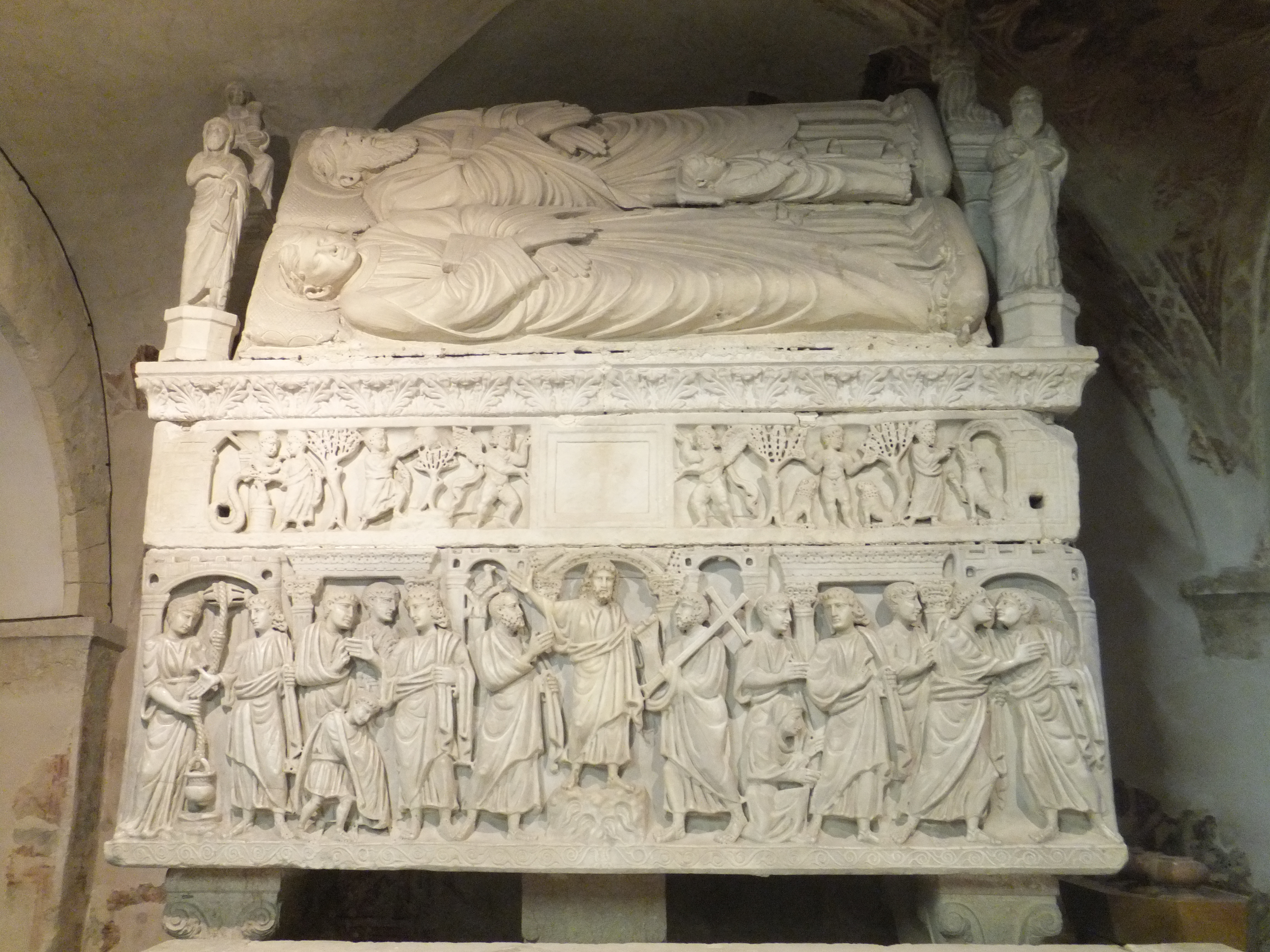 Verona, church of San Giovanni in Valle - Crypt - Sarcophagus